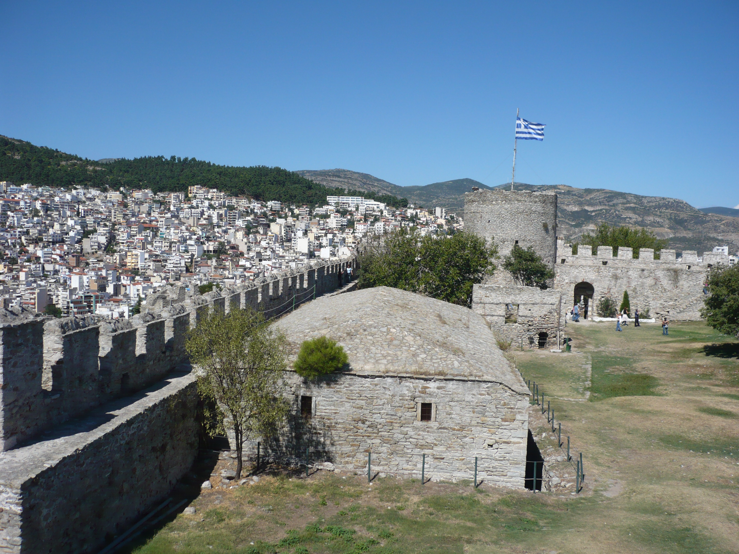 Kavala Byzantine fortress«Χερσόνησος Παναγιά Καβάλας, με το τείχος και το κάστρο»